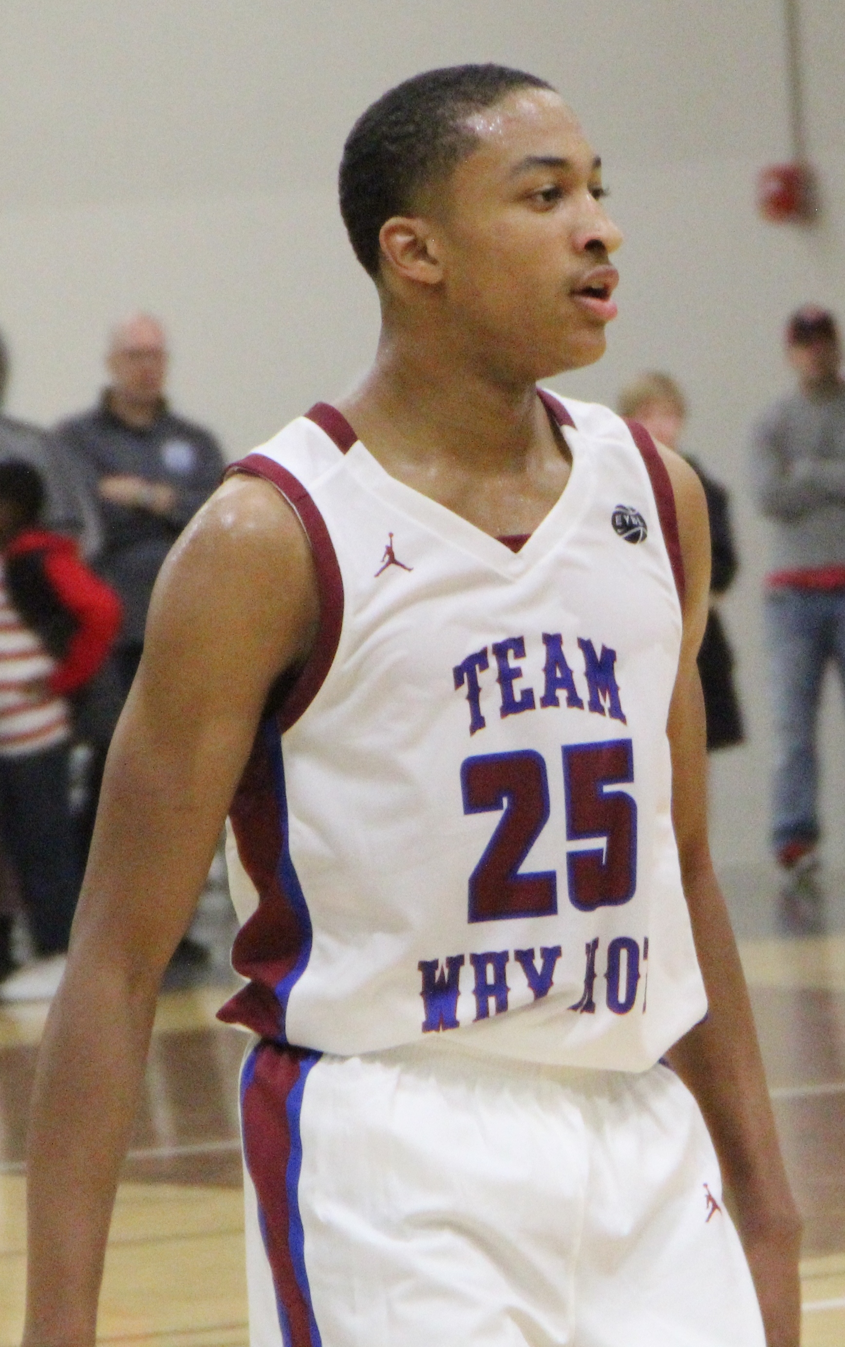 Nimari Burnett plays for Team WhyNot at the second session of Nike EYBL in Westfield, Indiana, on May 10. Photo: Colin Hass-Hill For more Ohio State basketball coverage, visit .